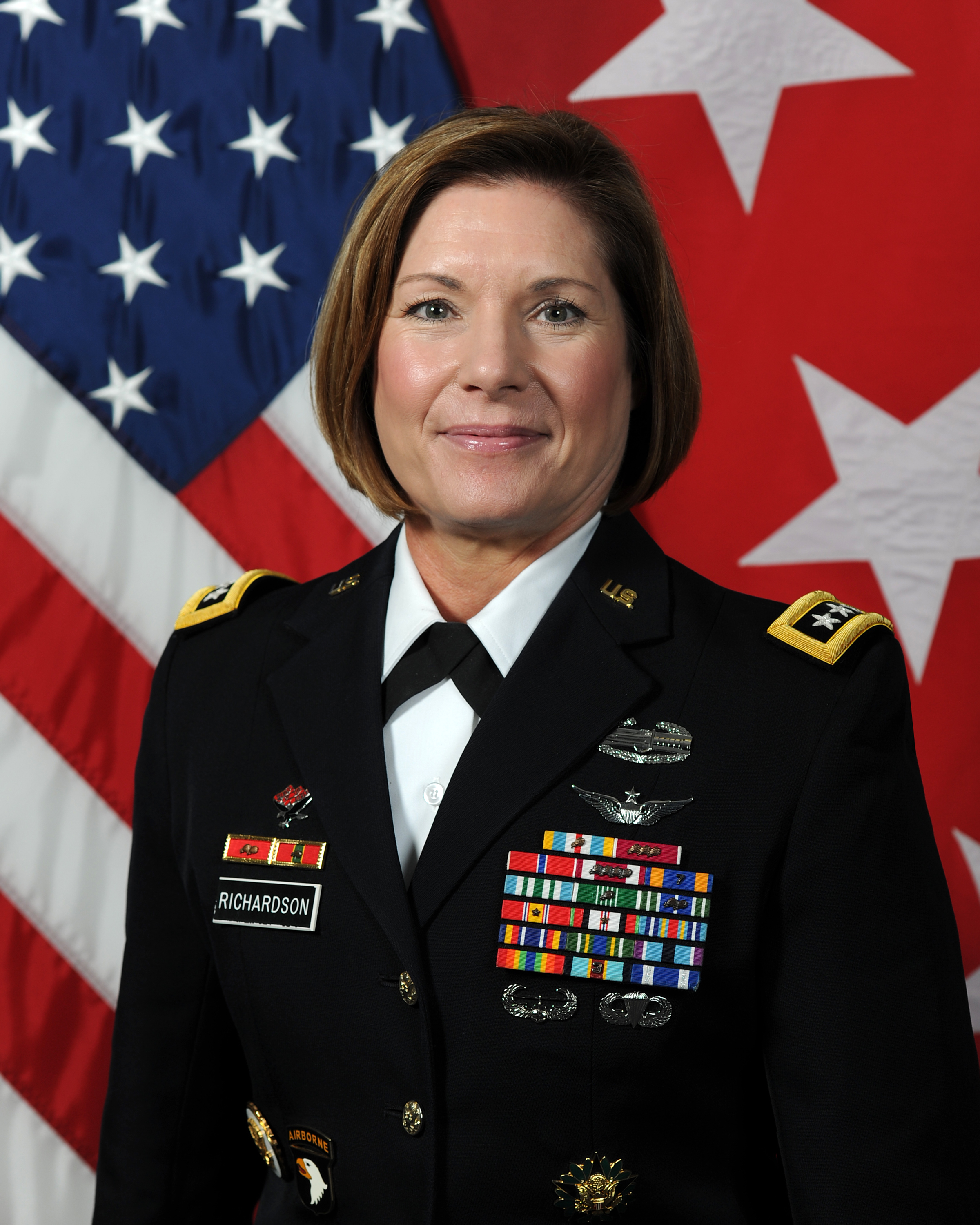 Lt. Gen. Laura J. Richardson